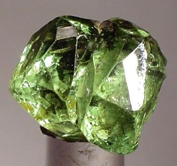 Grossular (Var.: Tsavorite) Locality: Merelani Hills (Mererani), Lelatema Mts, Arusha Region, Tanzania (Locality at ) Size: 1.2 x 1.0 x 0.8 cm. Tsavorite is a rare form of grossular garnet. This pair of intergrown crystals is absolutely stunning. The green color, fabulous clarity, and superb luster make this a fine specimen. 8.65 carats.